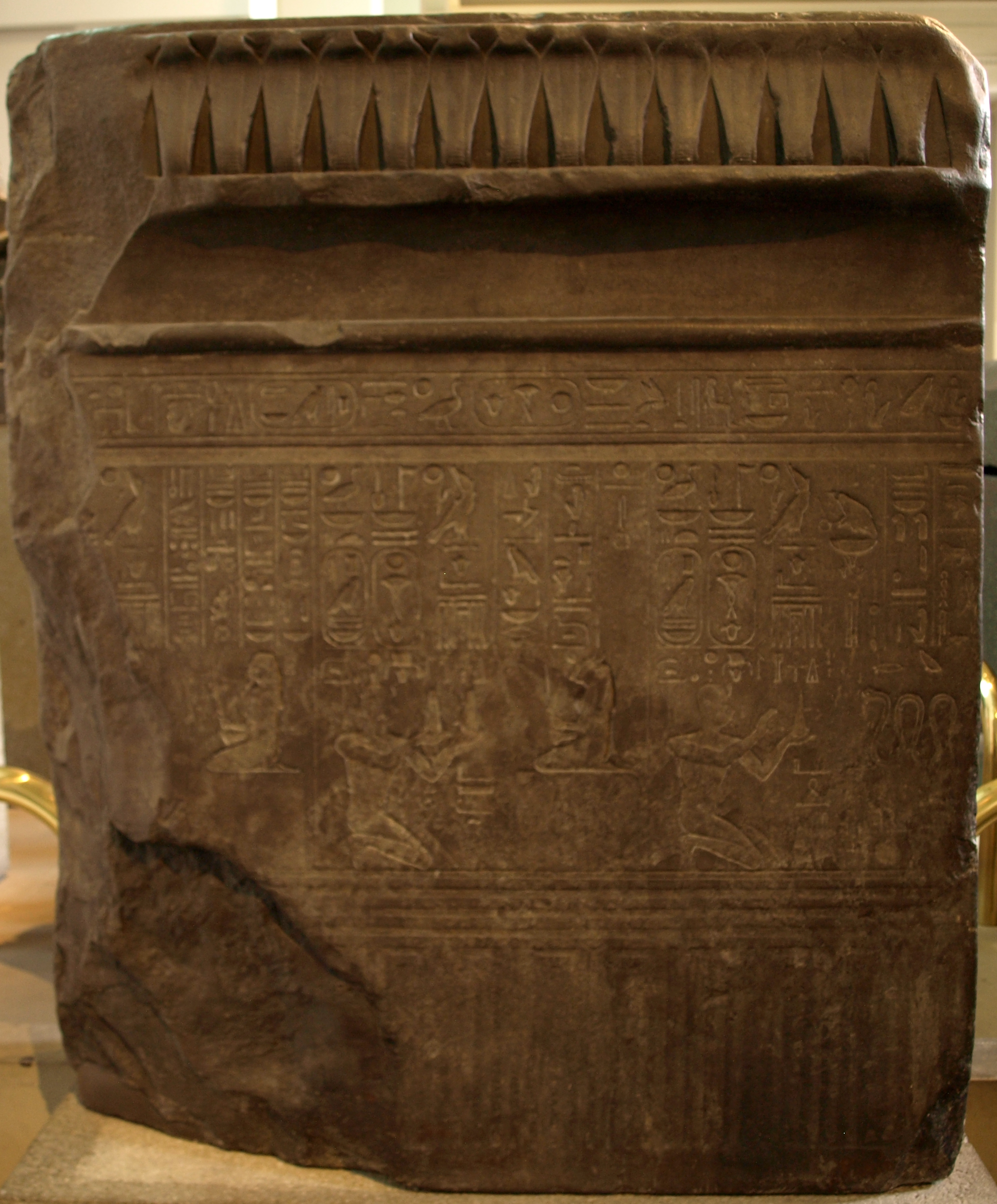 Low basalt wall section. likely from a temple, depicting the pharaoh Psamtik I in relief giving offerings to the god Atum. Originally from Rosetta, from the reign of Psamtek I (664-610 BC). EA 20.